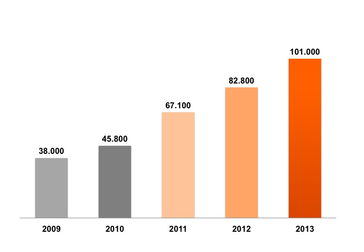 Participant Development B2RUN